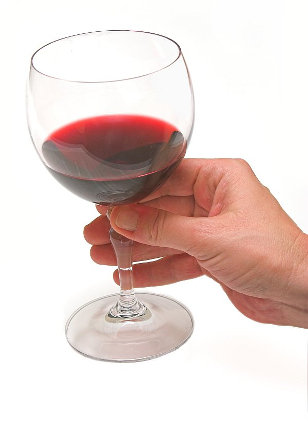 A hand holding a glass of wine.